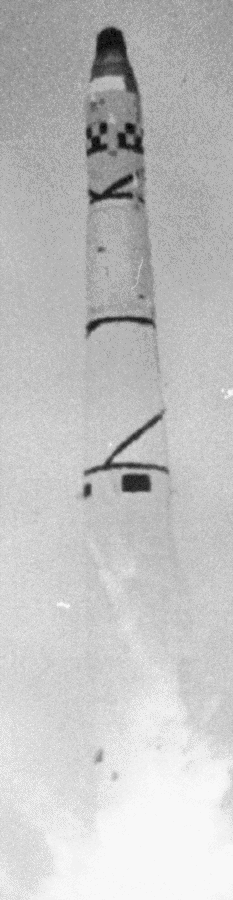 Launch of the Thor Agena A rocket with Discoverer 13 satellite (Corona KH-1 type), 10 August 1960.